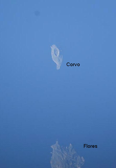 Corvo Island from Space (with Flores Island at the edge of the image)